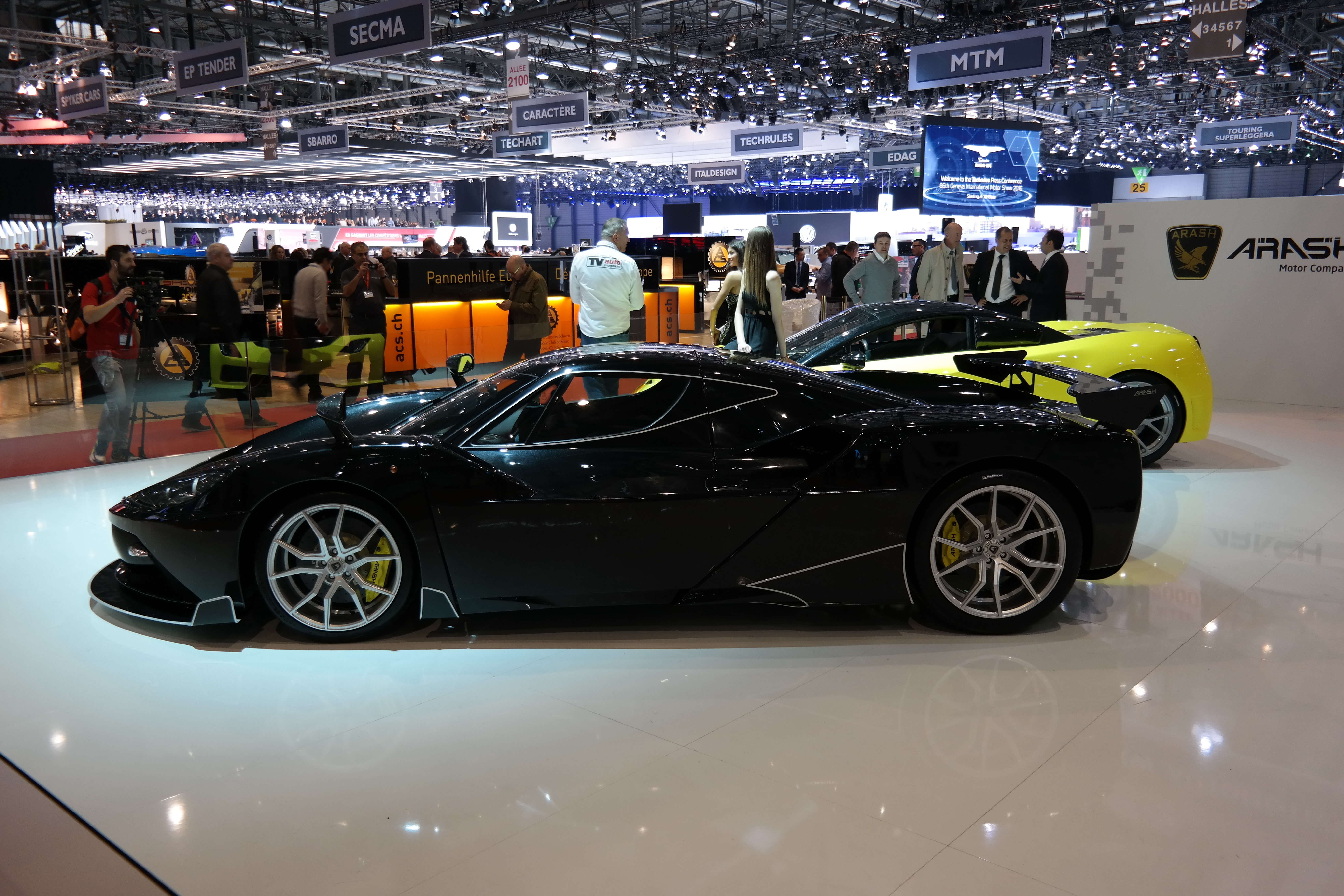 Geneva Motor Show 2016 (photo taken on the first press day)